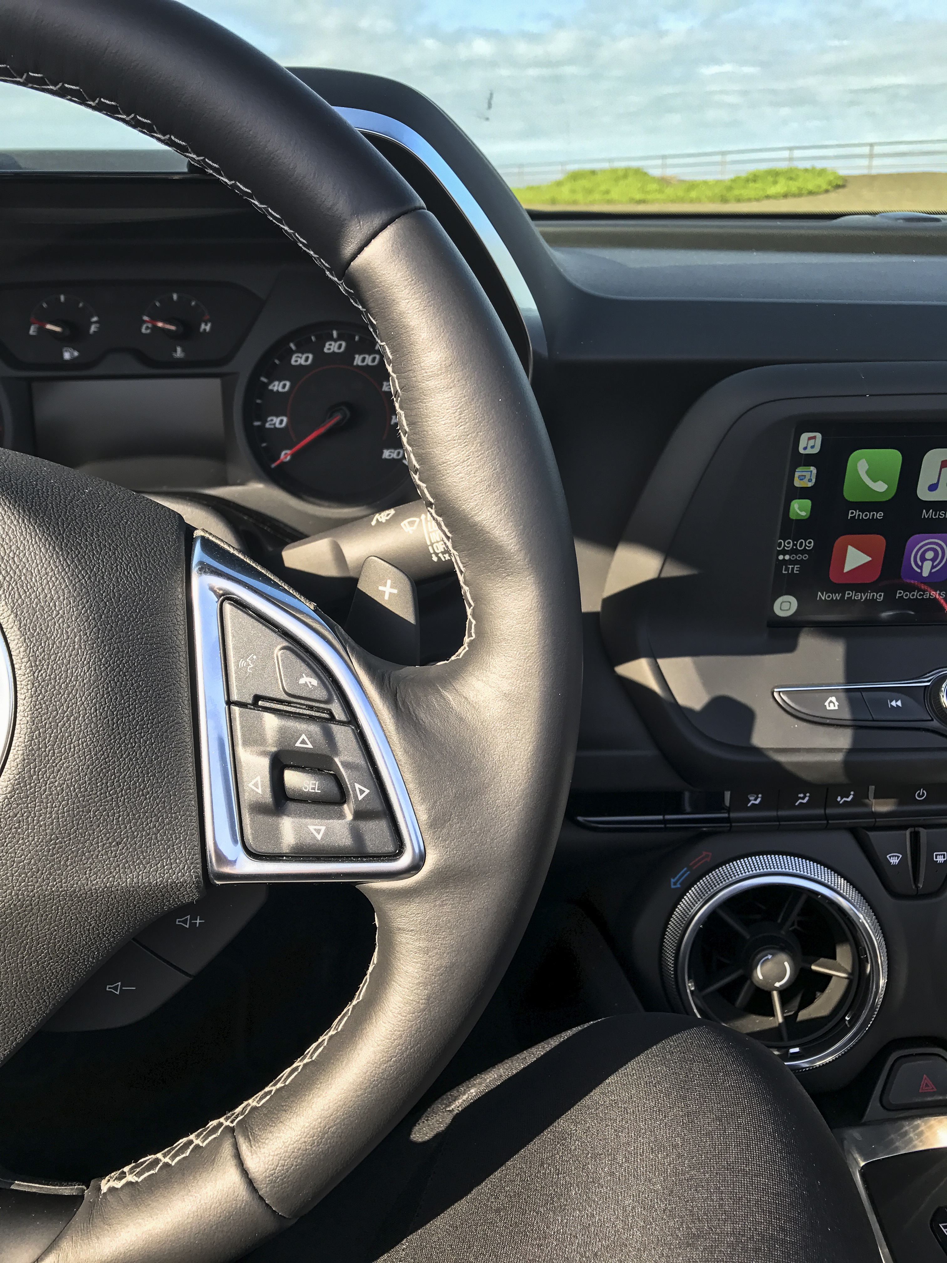 That convertible.